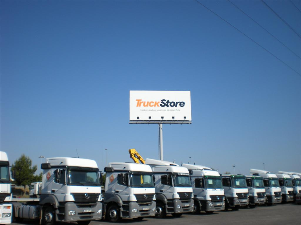 TruckStore Sevilla